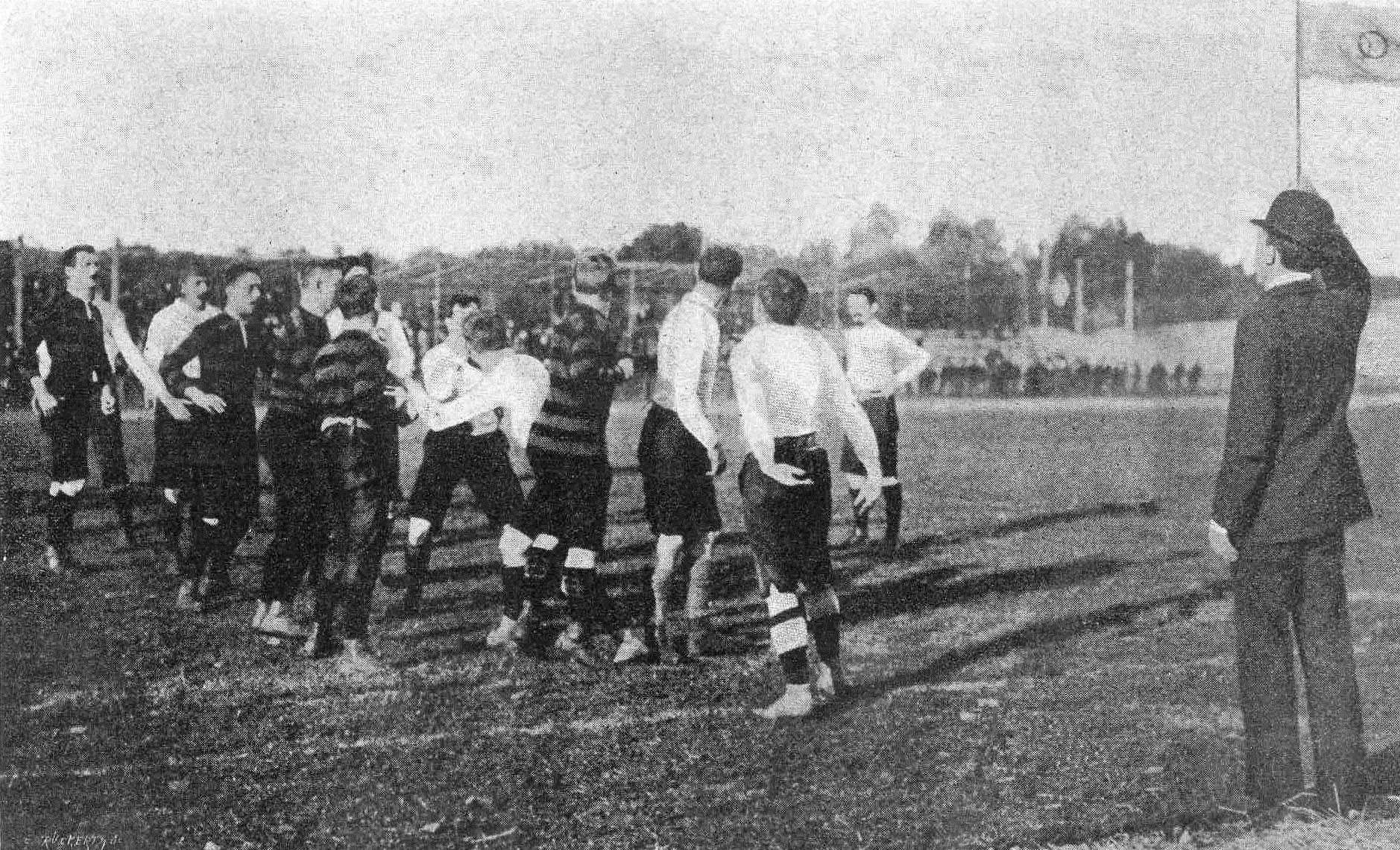 The France (white) v Germany (dark and striped) match at the Summer Olympics (at right: F. Reichel)